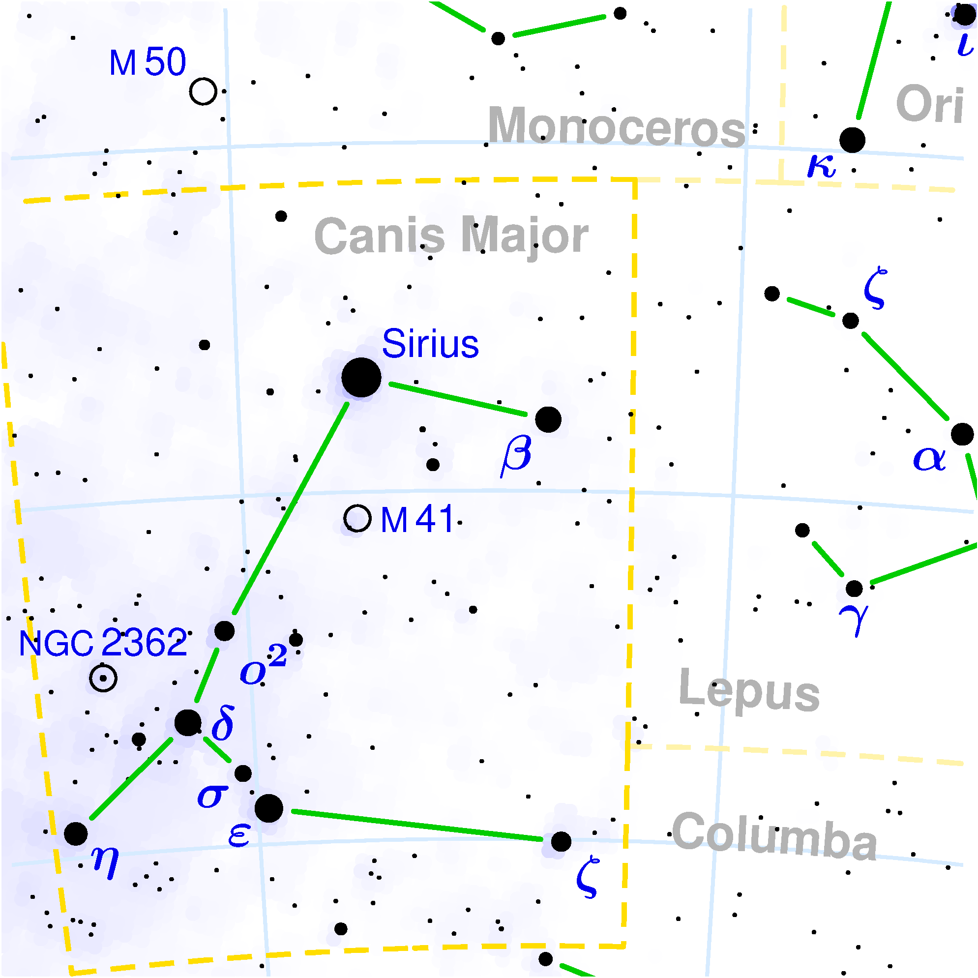 This is a celestial map of the constellation Canis Major, the Big Dog.